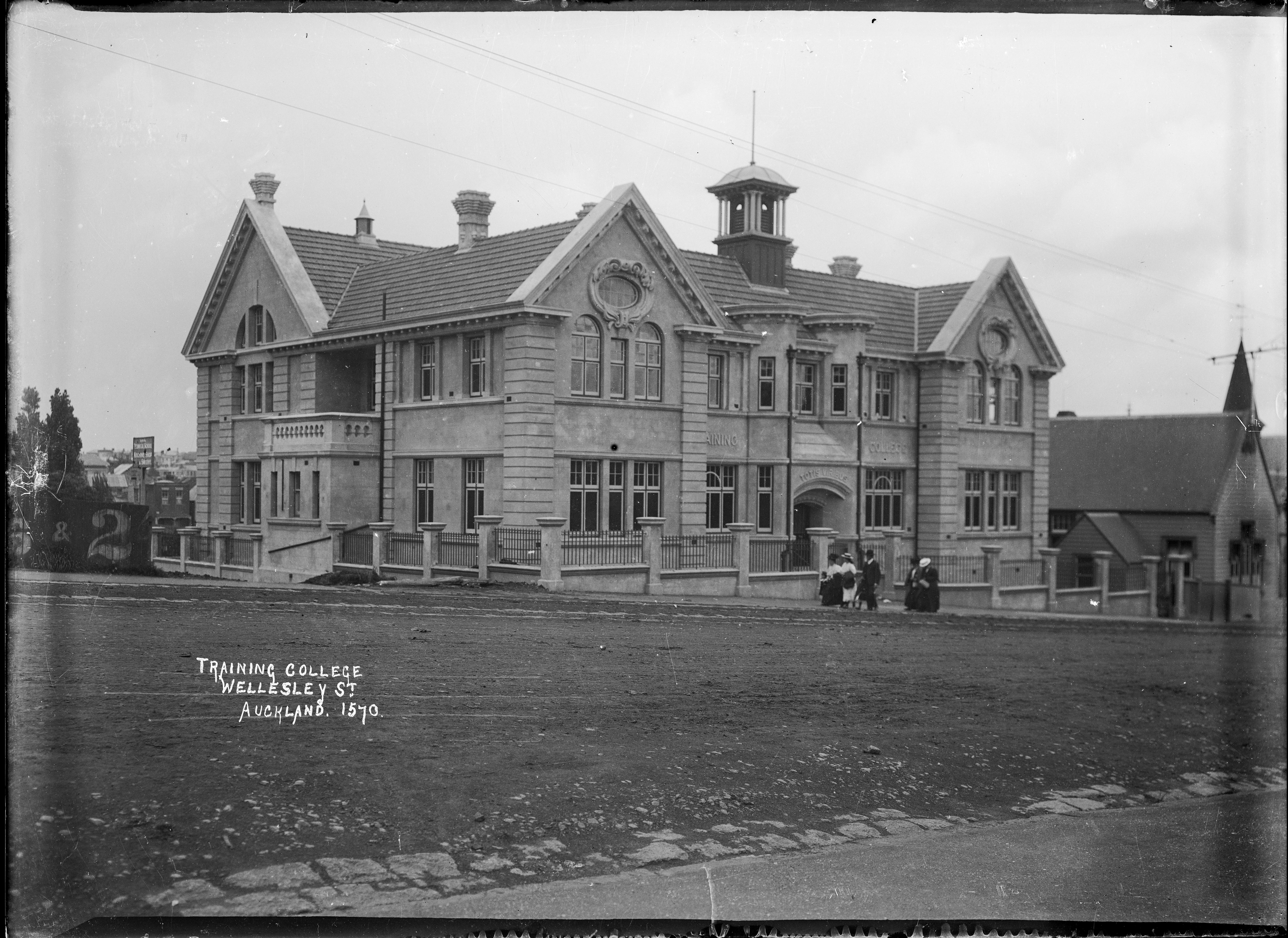 View of the Teachers' Training Colege in Wellesley Street East. Next door to the right is the Wellesley Street East School. A group of people are walking up Wellesley Street outside the entrance to the College. Photographed by William Price between 1907-1925. Inscriptions: Inscribed - Photographer's title on negative -bottom left: Training College. Wellesley St. Auckland. 1570.. Quantity: 1 b&w original negative(s). Physical Description: Dry plate glass negative 4.5 x 6.5 inches Teachers' Training College, Wellesley Street, Auckland. Ref: 1/2-000538-G. Alexander Turnbull Library, Wellington, New Zealand.